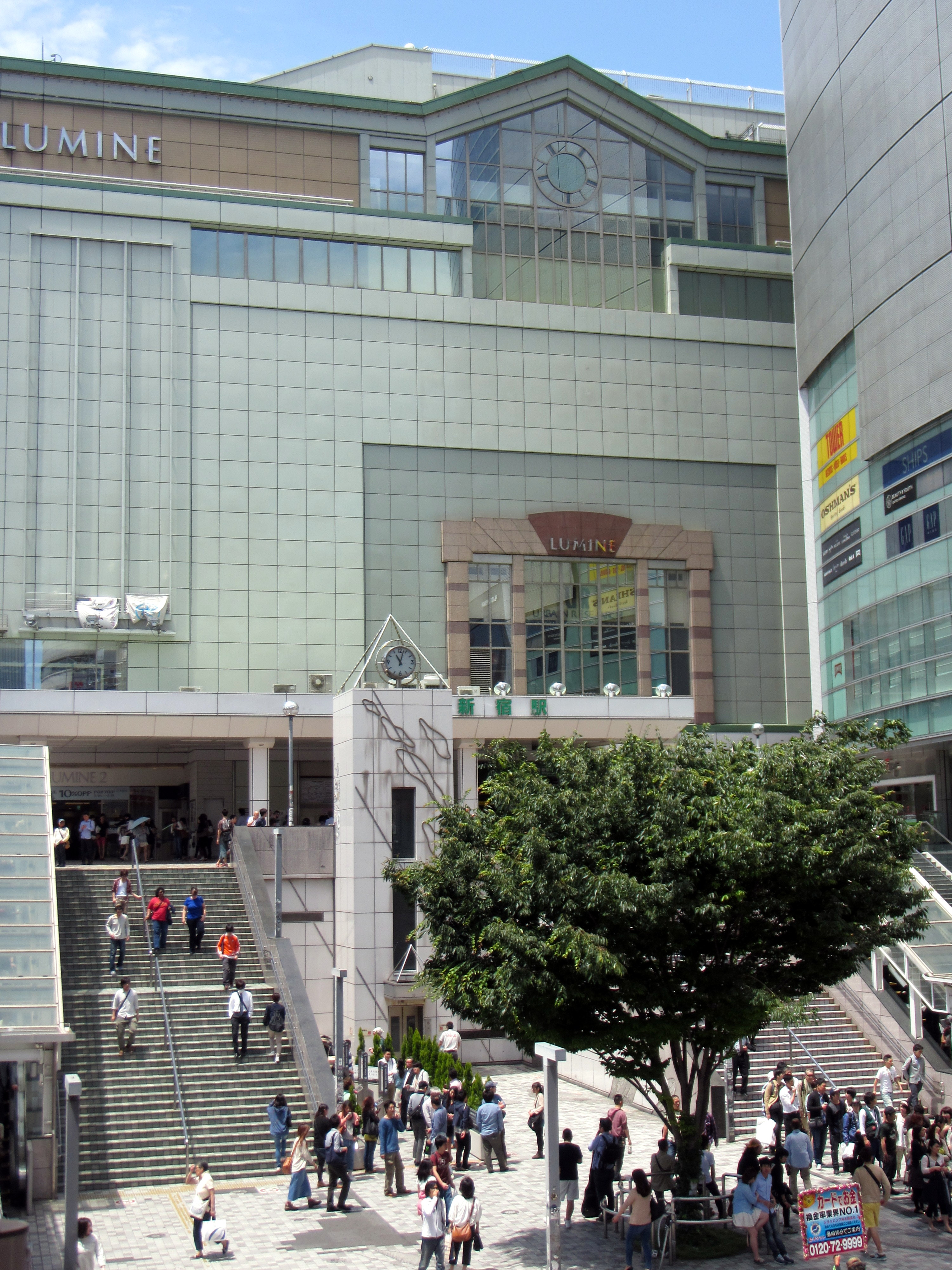 新宿駅南口広場 South Plaza of Shinjuku Station